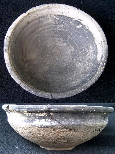 Ancient roman clay bowl, found in germany, ca. 2nd century